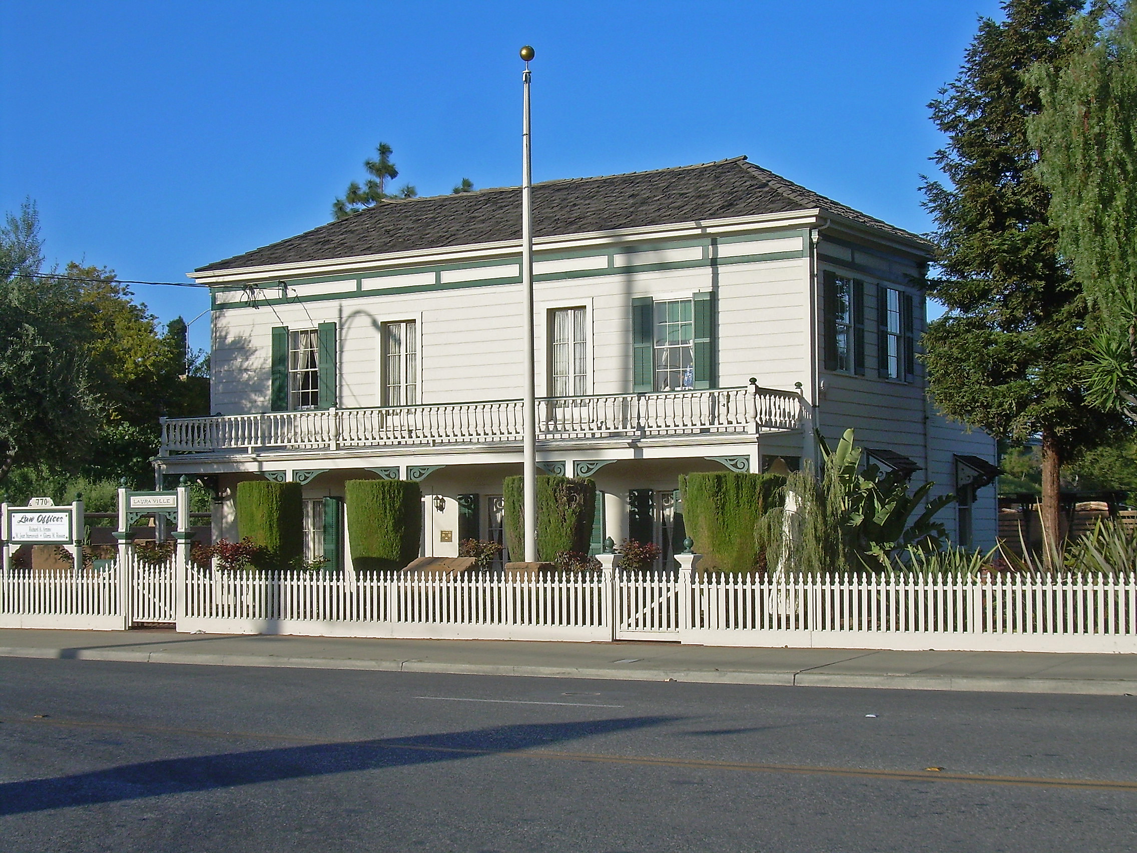 A view of a historic home on the National Register of Historic Places and a California Historic Landmark in San Jose, California.